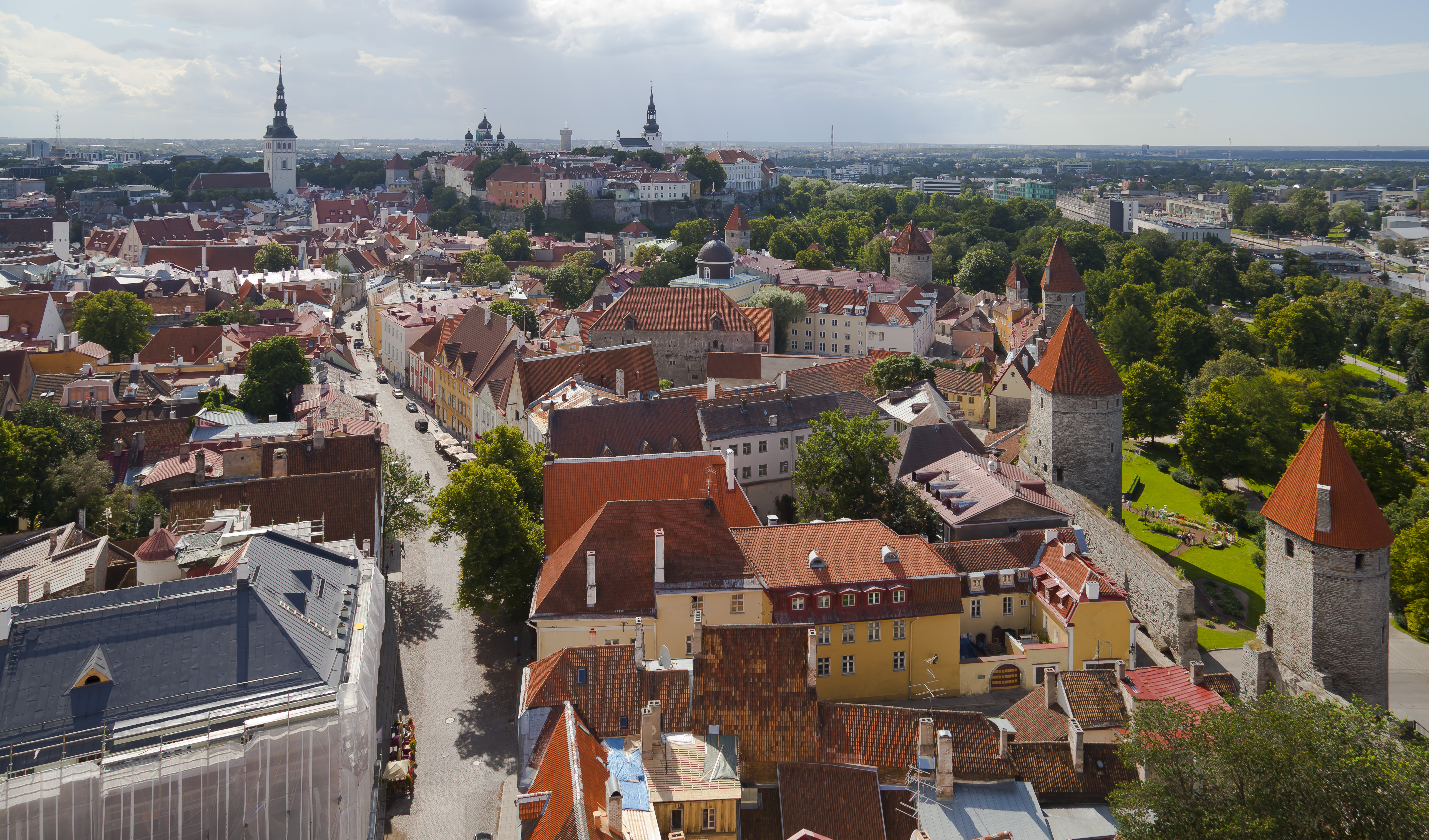 View of Tallinn from St. Olaf's church, Estonia